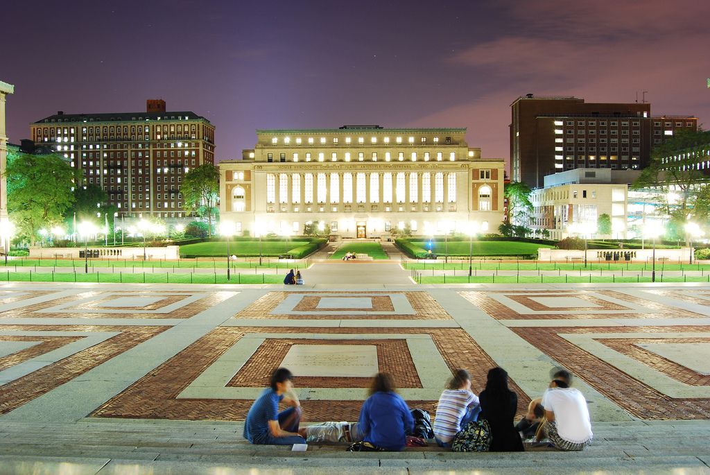 Columbia University - NY - EUA. Left to right: John Jay Hall, Butler Library, Carman Hall, Lerner Hall.